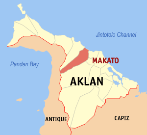 Map of Aklan showing the location of Makato